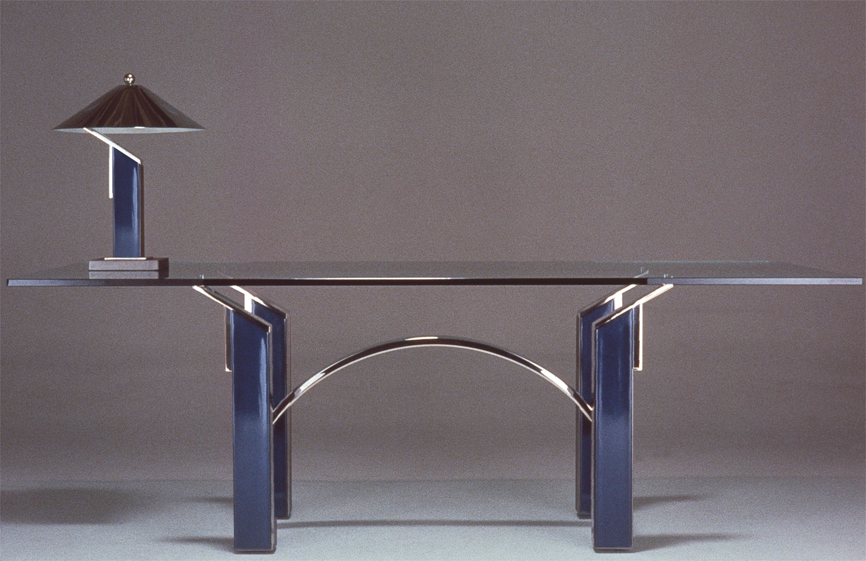 Roscoe Award Winner "Arquitectura Table" designed by Sergio Orozco